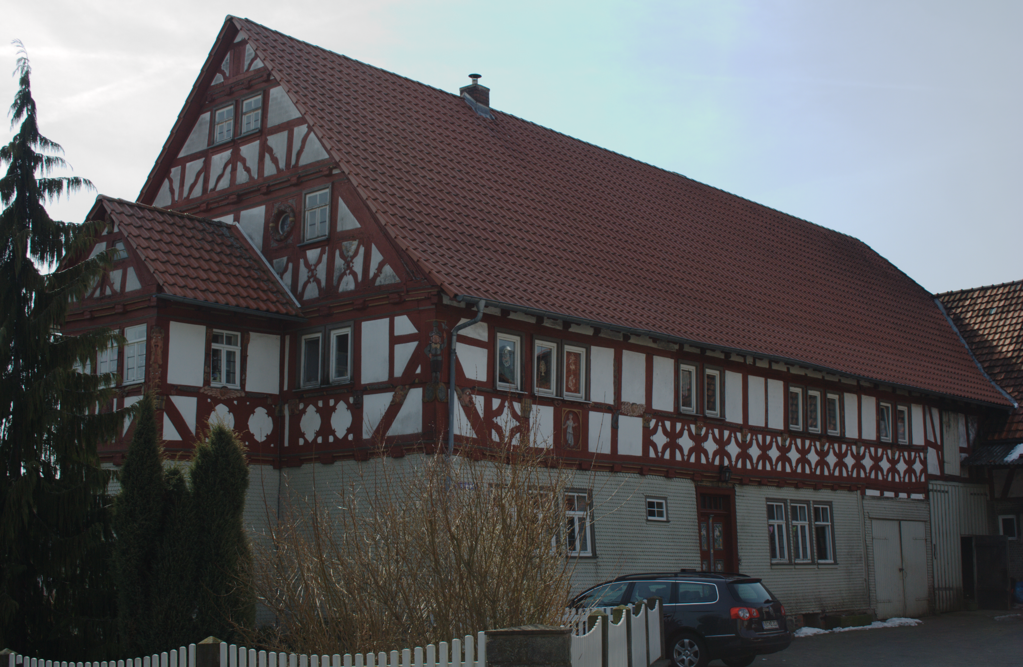 Half-timbered building in Crainfeld Kreuzstrasse, Grebenhain, Hesse, Germany